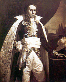 Portrait of Louis Nicolas Dubois (1758-1847)